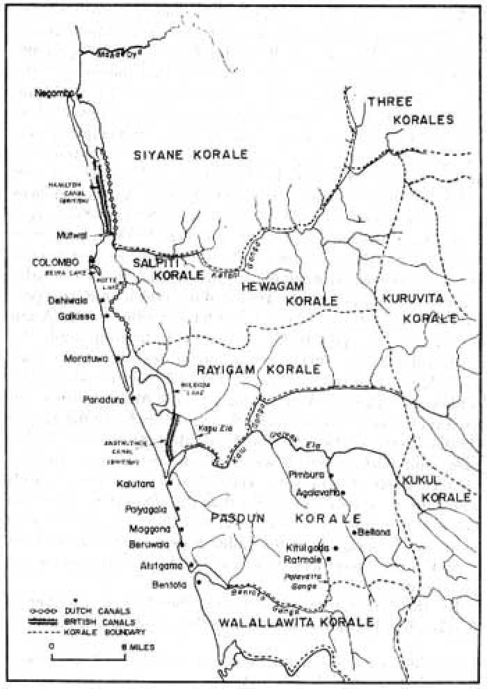 mapa dels korales de Ceilan, amb el de Siyane al nord-est de Colombo